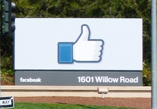 Detail from File:Facebook Headquarters Menlo Park.jpg